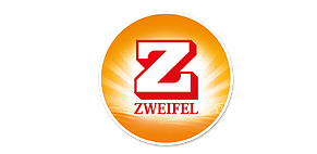 Zweifel Pomy-Chips Logo